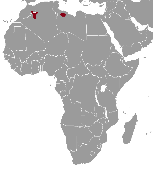 Ctenodactylus vali range map